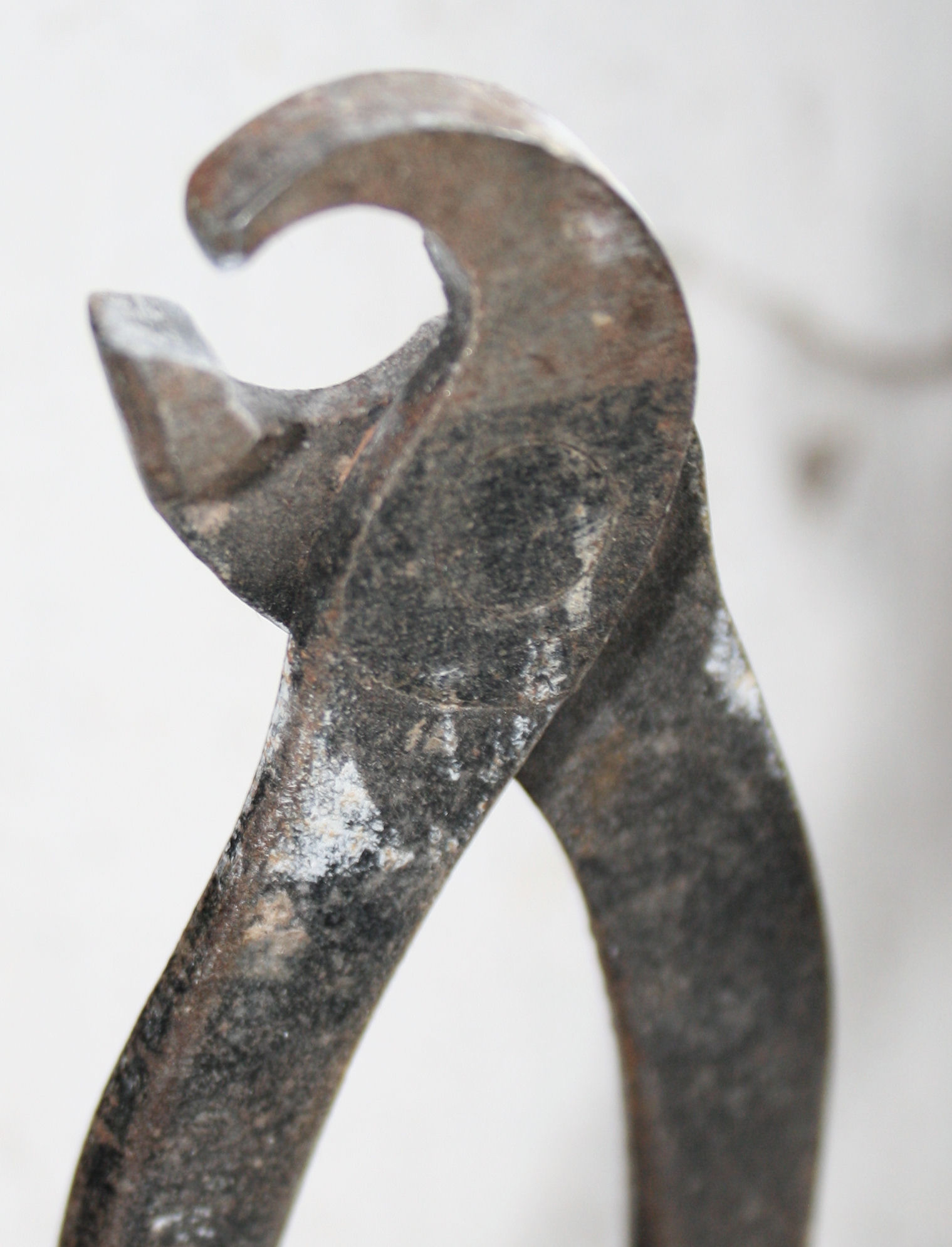 Detail photo of a parrot Pliers